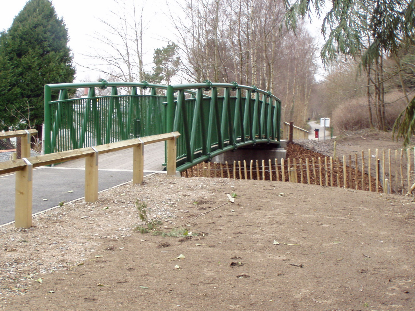 West Cults Footbridge New footbridge to take Old Deeside Line Footpath over West Cults Road